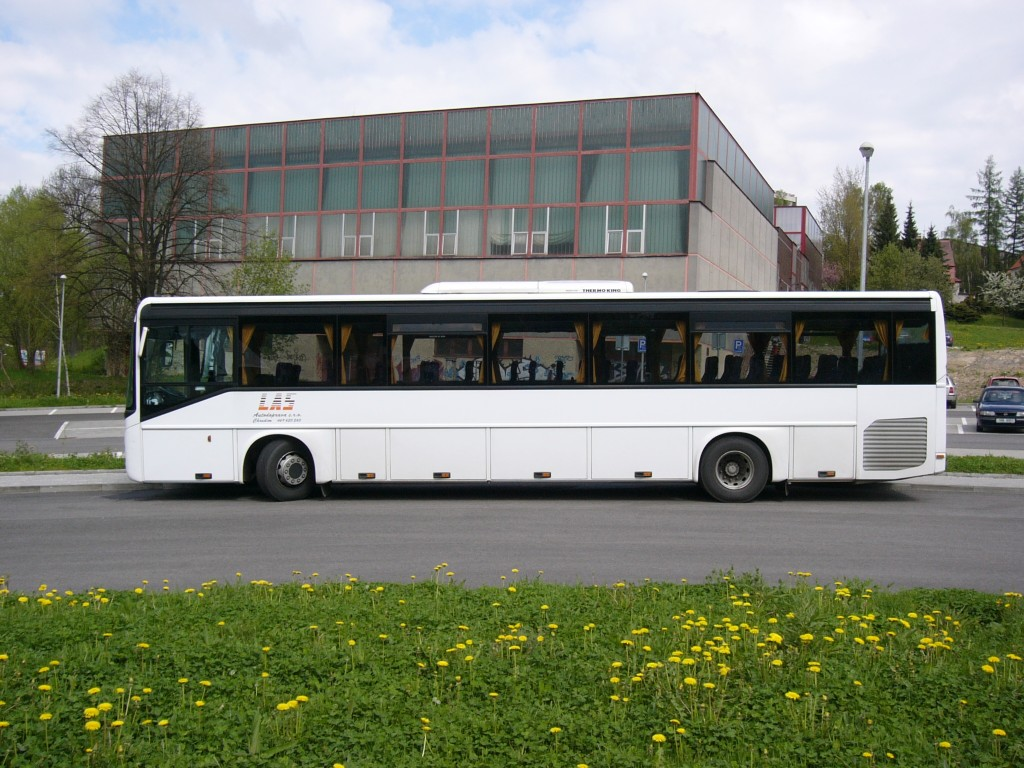 Irisbus Ares 12.8m in Liberec (CZE)